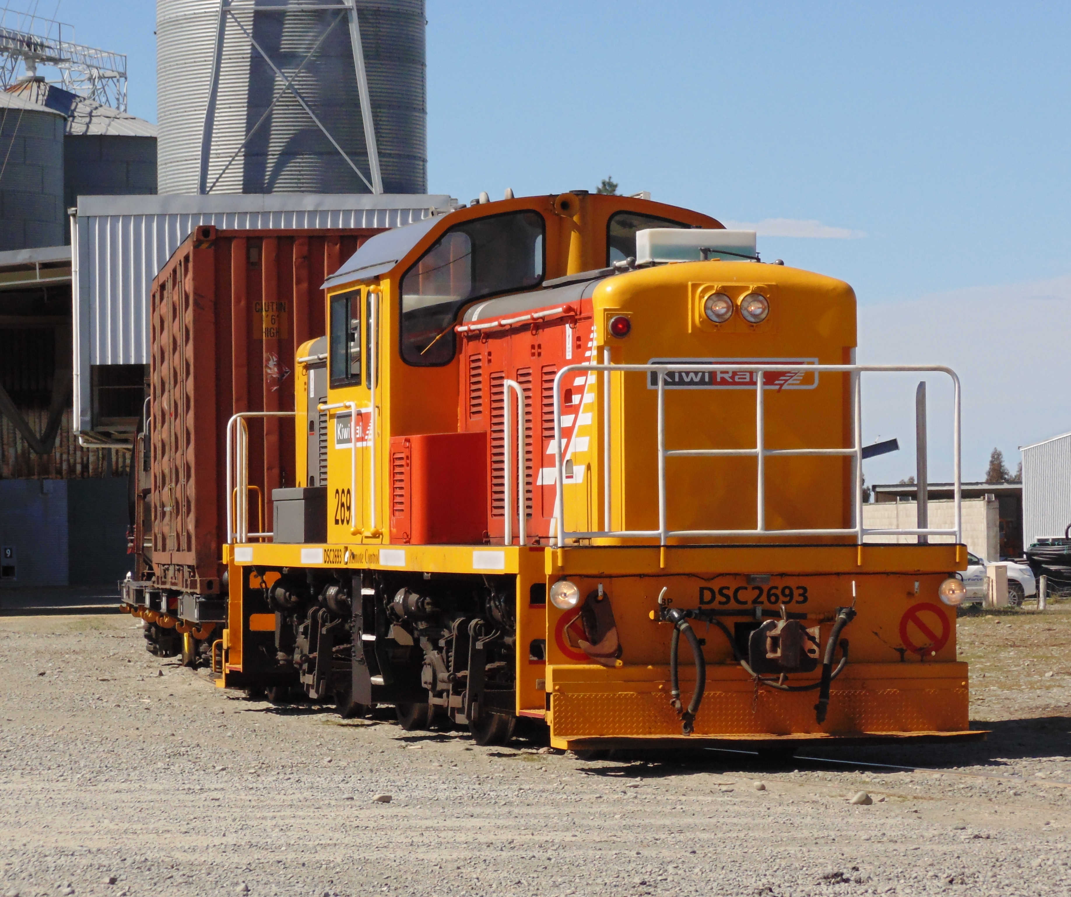 TrainboyMBH